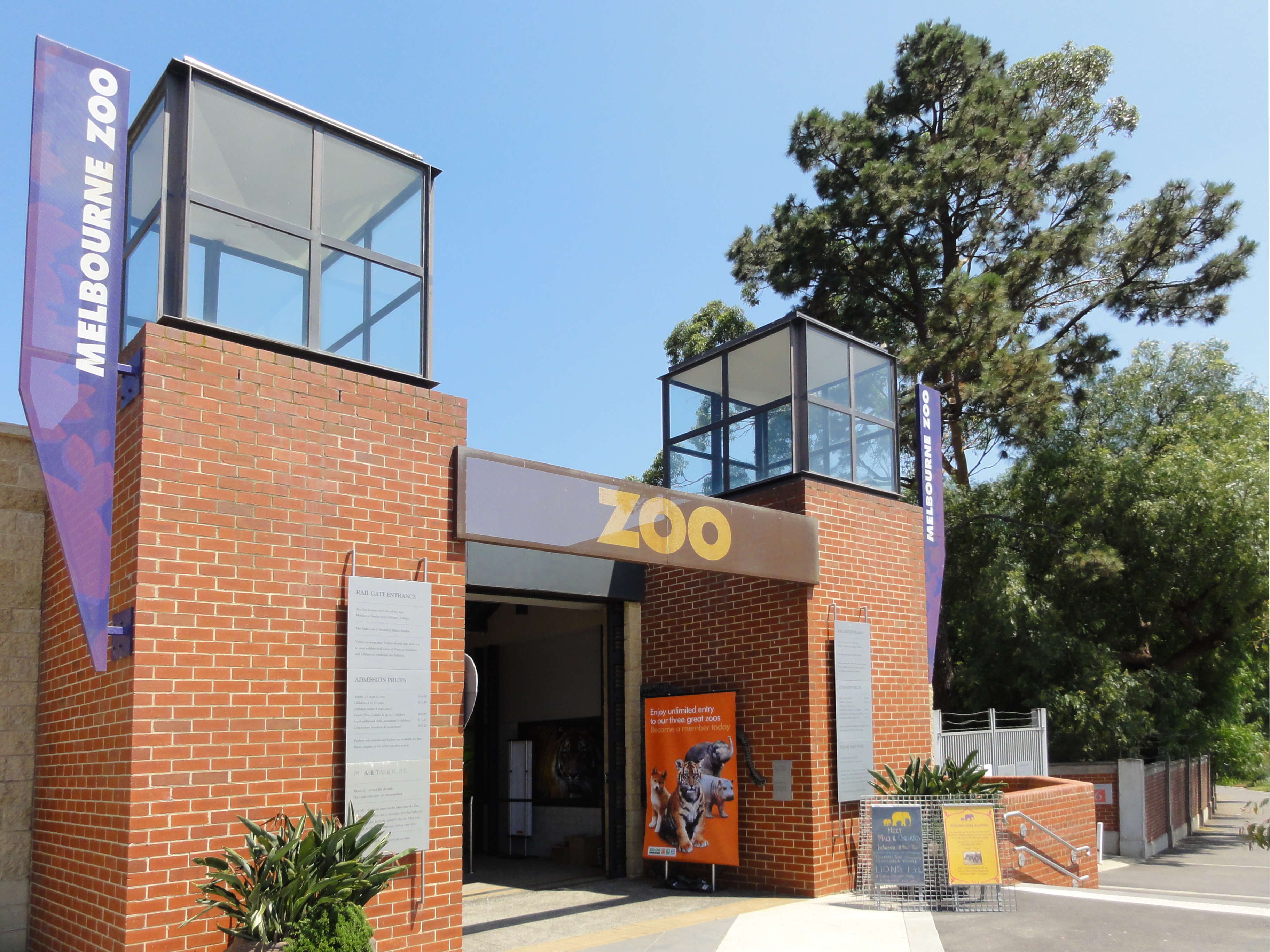 The Rail Gate entrance, Melbourne Zoo, Victoria, Australia. This entrance is at the north of the zoo and near to Royal Park railway station.